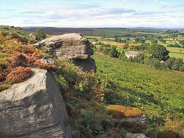 Snowden Crags. Northward view, Crag House in the middle distance, High Snowden beyond.